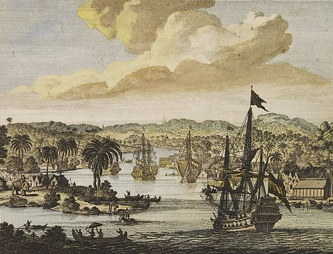 View of the port of Chittagong, situated at the mouth of a river full of ships including a Dutch East Indiaman.